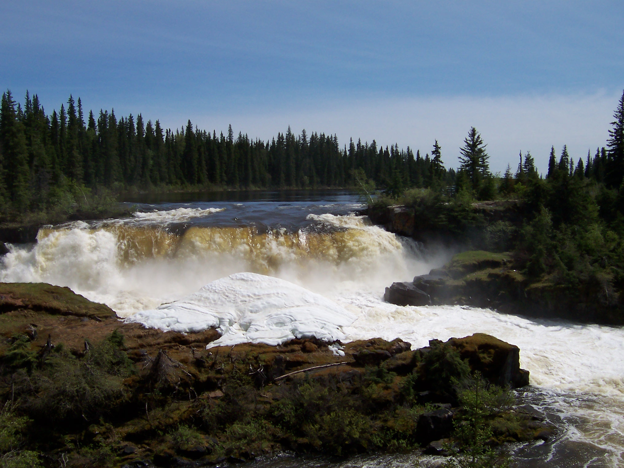 Photo of Pisew Falls, Manitoba, Canada